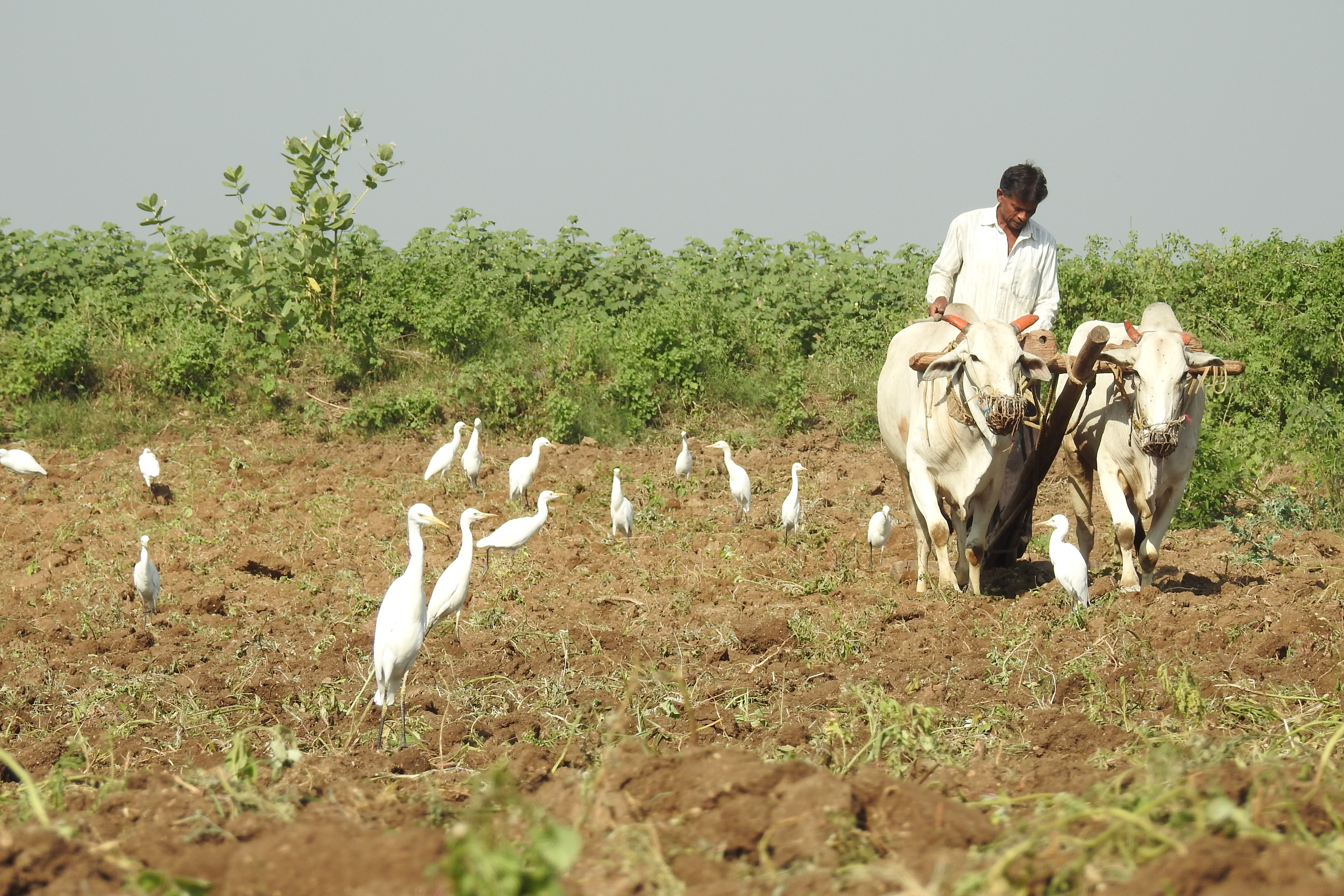 Cattle Egret Bubulcus ibis following plough in agriculture or cropland. Photographed in Yavatmal district, Maharashtra, India.